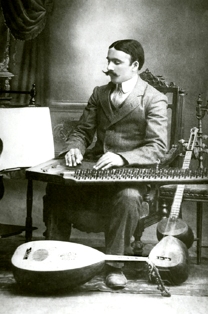 Azerbaijani musician Meshadi Jamil Amirov playing qanun, Elizabethpol (today Ganja), 1915